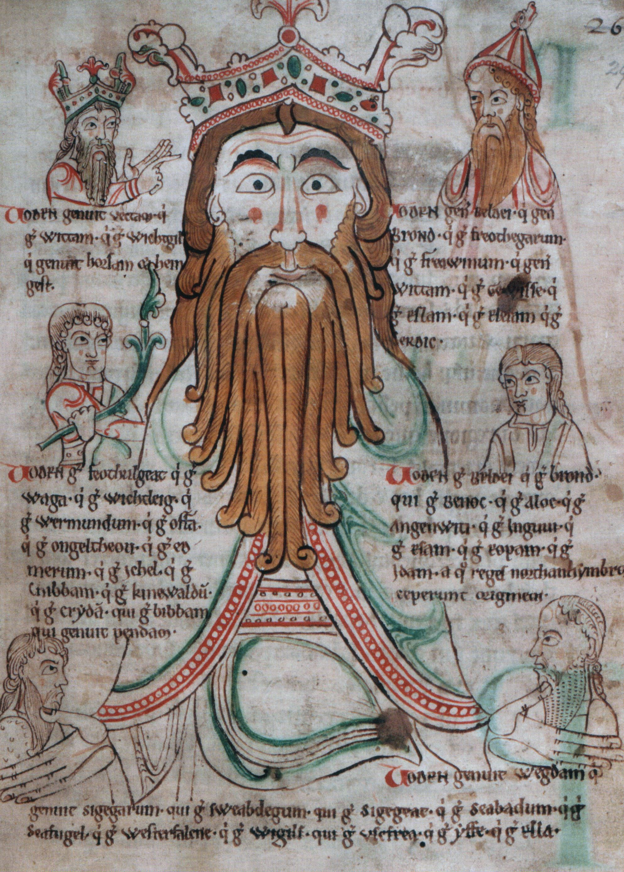 Odin & sons. Libellus de primo Saxonum uel Normannorum adventu. 12th century.